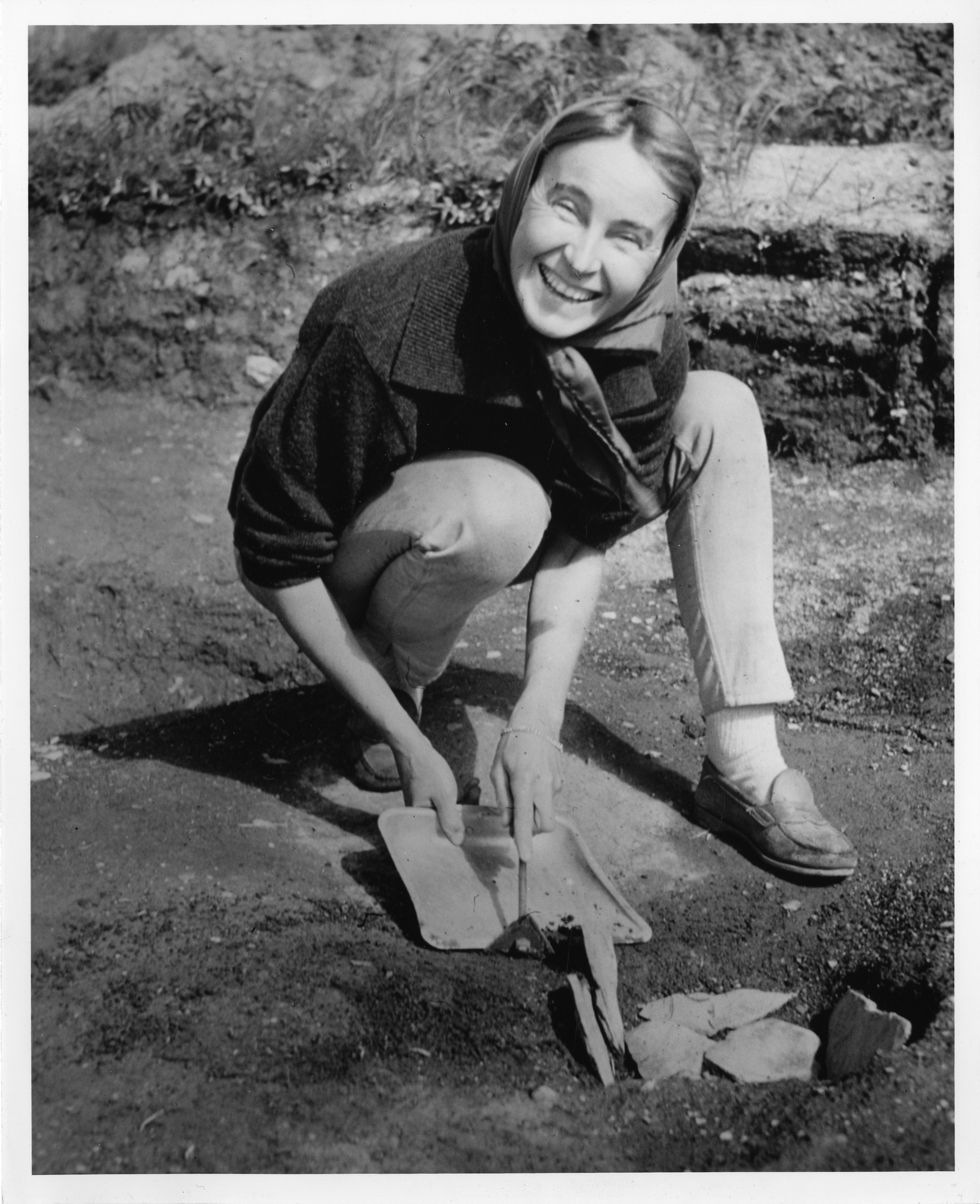 Creator: National Geographic Society (U.S.) Subject: Ingstad, Anne Stine 1918-1997 Type: Black-and-White Prints Date: 1963 Topic: Archaeology Women archaeologists Local number: SIA Acc. 90-105 [SIA-SIA2008-4294] Summary: Norwegian archeologist Anne Stine Moe Ingstad (1918-1997) discovered the remains of a Norse settlement in Newfoundland and was author of The Norse Discovery of America (1977). In this photograph distributed by the National Geographic Society, Ingstad "examines a fire pit at the site of what is believed to be a Norse house dating from about A.D. 1000". Cite as: Acc. 90-105 - Science Service, Records, 1920s-1970s, Smithsonian Institution Archives Persistent URL: Repository: View more collections from the Smithsonian Institution.